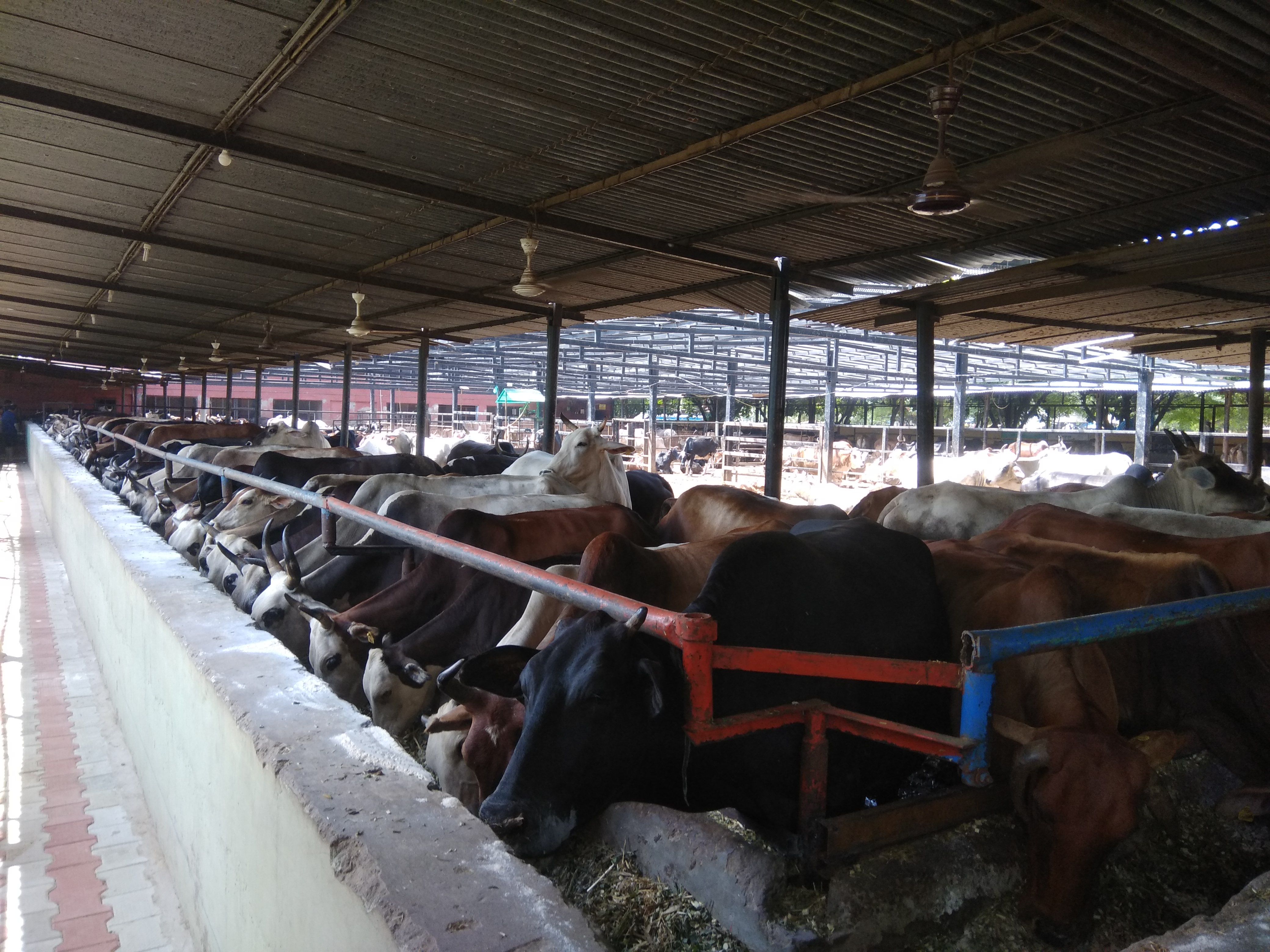 Goshala at Chandigarh